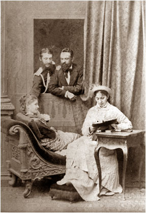 The photography of Giorgi Shervashidze